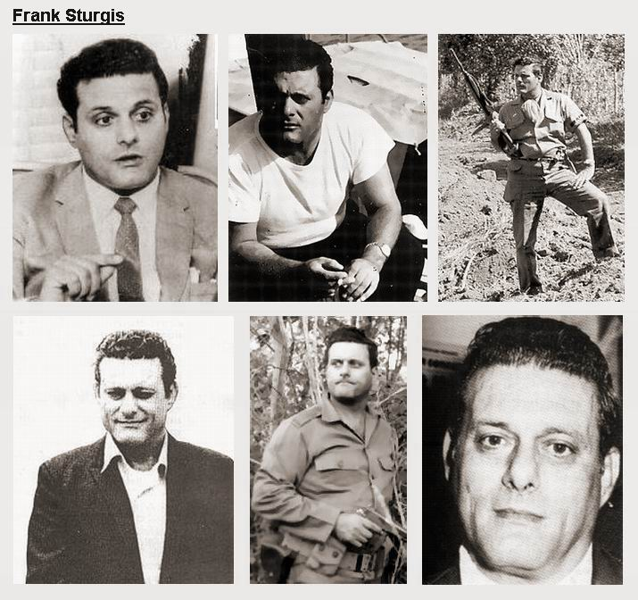 Six pictures of Frank Sturgis. The upper-right photo is from San Juan Hill, Cuba, 11 January 1959, and shows Sturgis standing over a mass grave of 71 executed Batista soldiers.